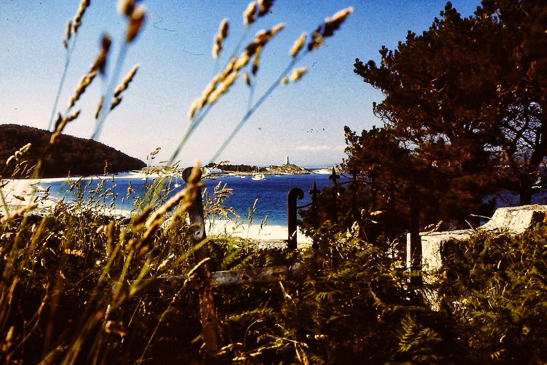 Playa de Rodas, Ilas Cies, view from cementery, about 1996